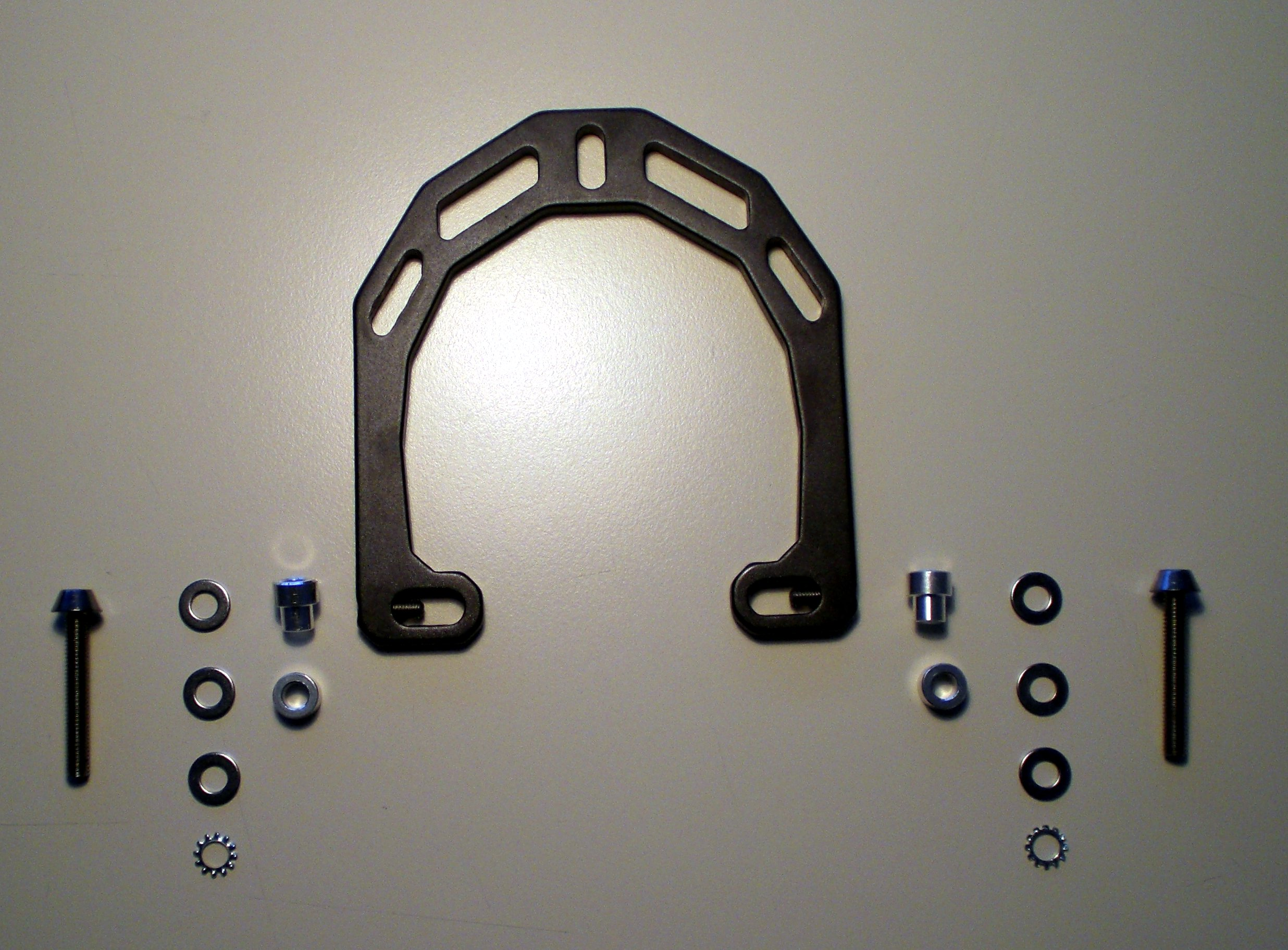 brake booster for V-brakes on bikes